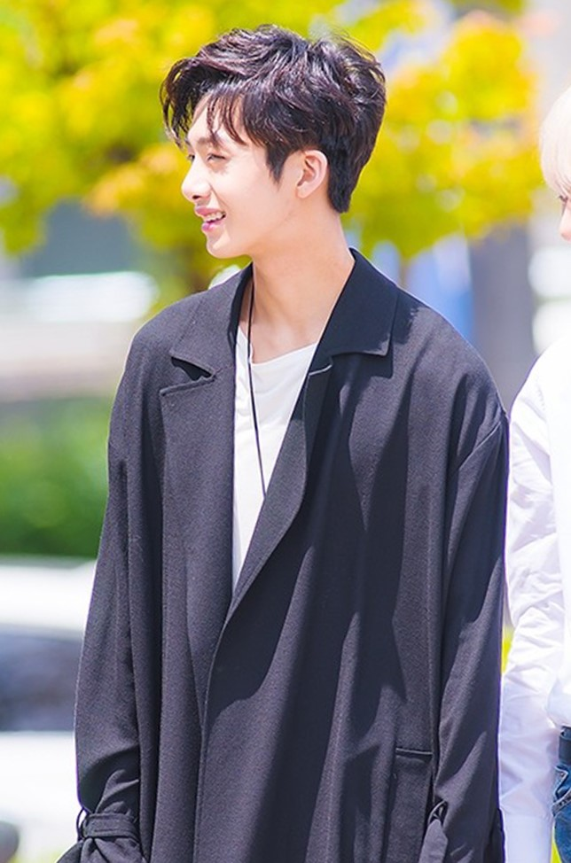 Chae Hyung-won at a fanmeet on May 21, 2016.